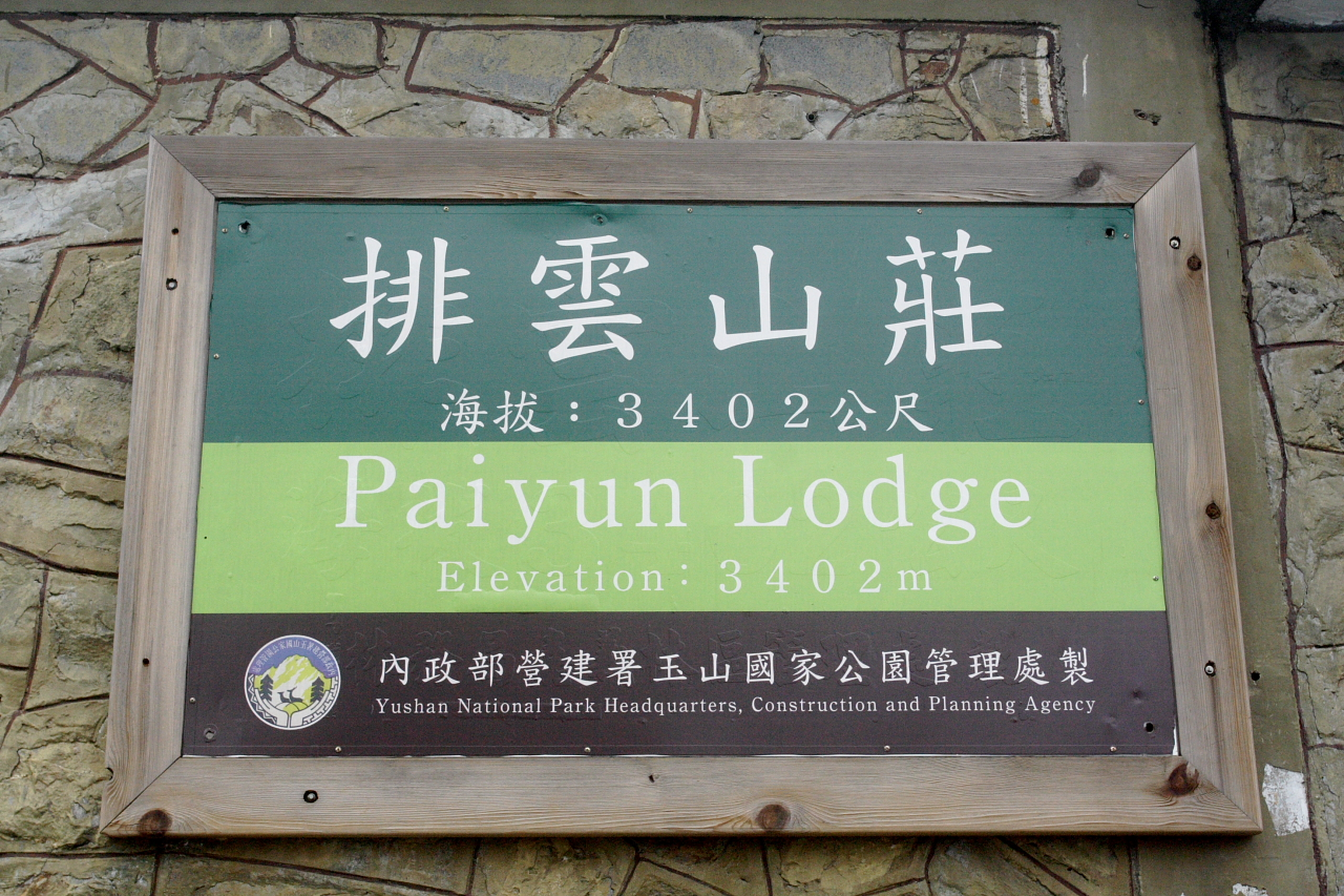 Paiyun Lodge name plate中文（中国大陆）: 排云山庄的铭牌